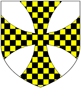 Arms of Lawley (Lawley Baronets, Baron Wenlock): Argent, a cross formée extended to the extremes of the shield chequy or and sable (Debrett's Baronetage of England, Revised by George Collen, London, 1840, pp.340-1[1])